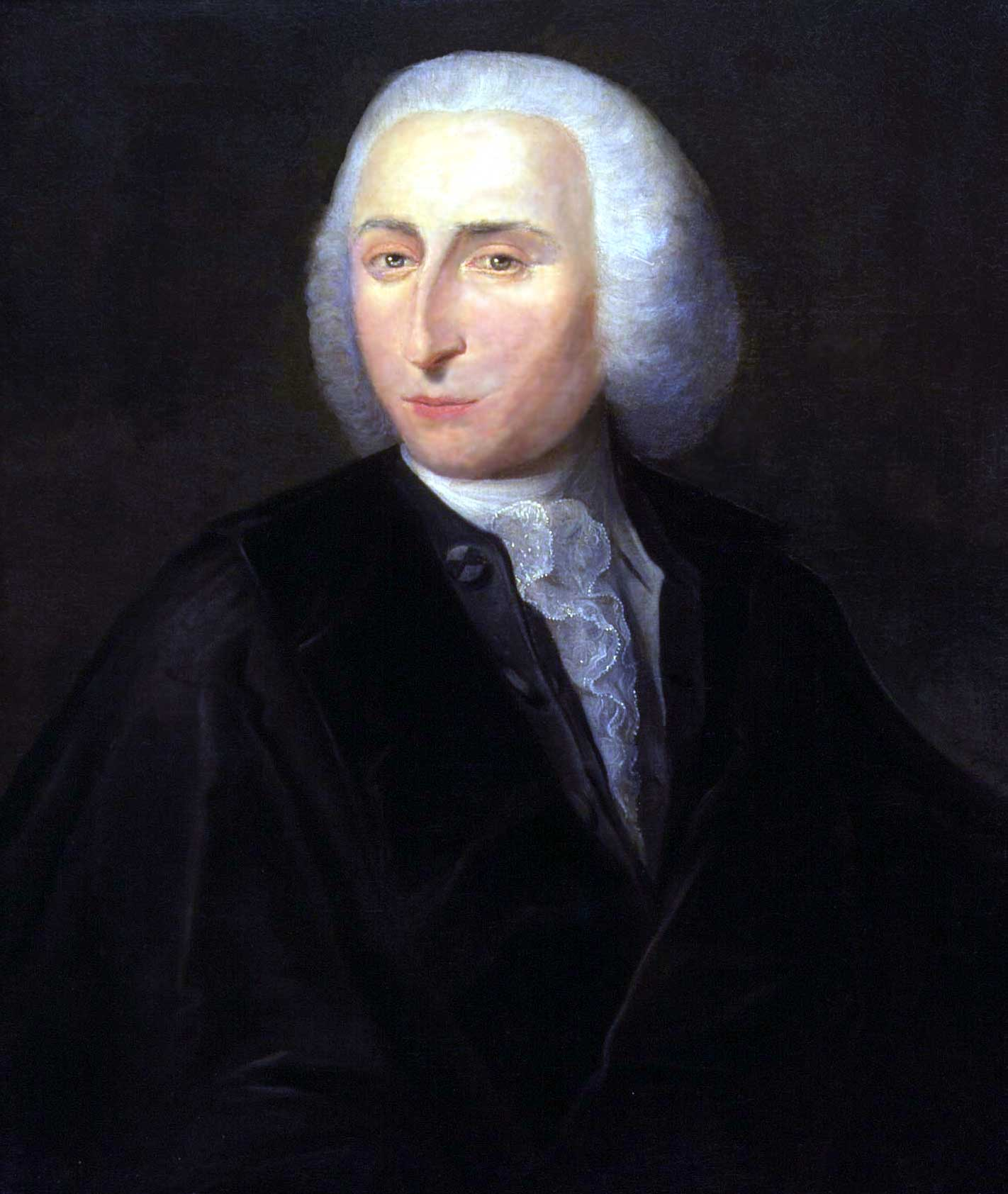 Frederik Winter (1712-1760) German physician